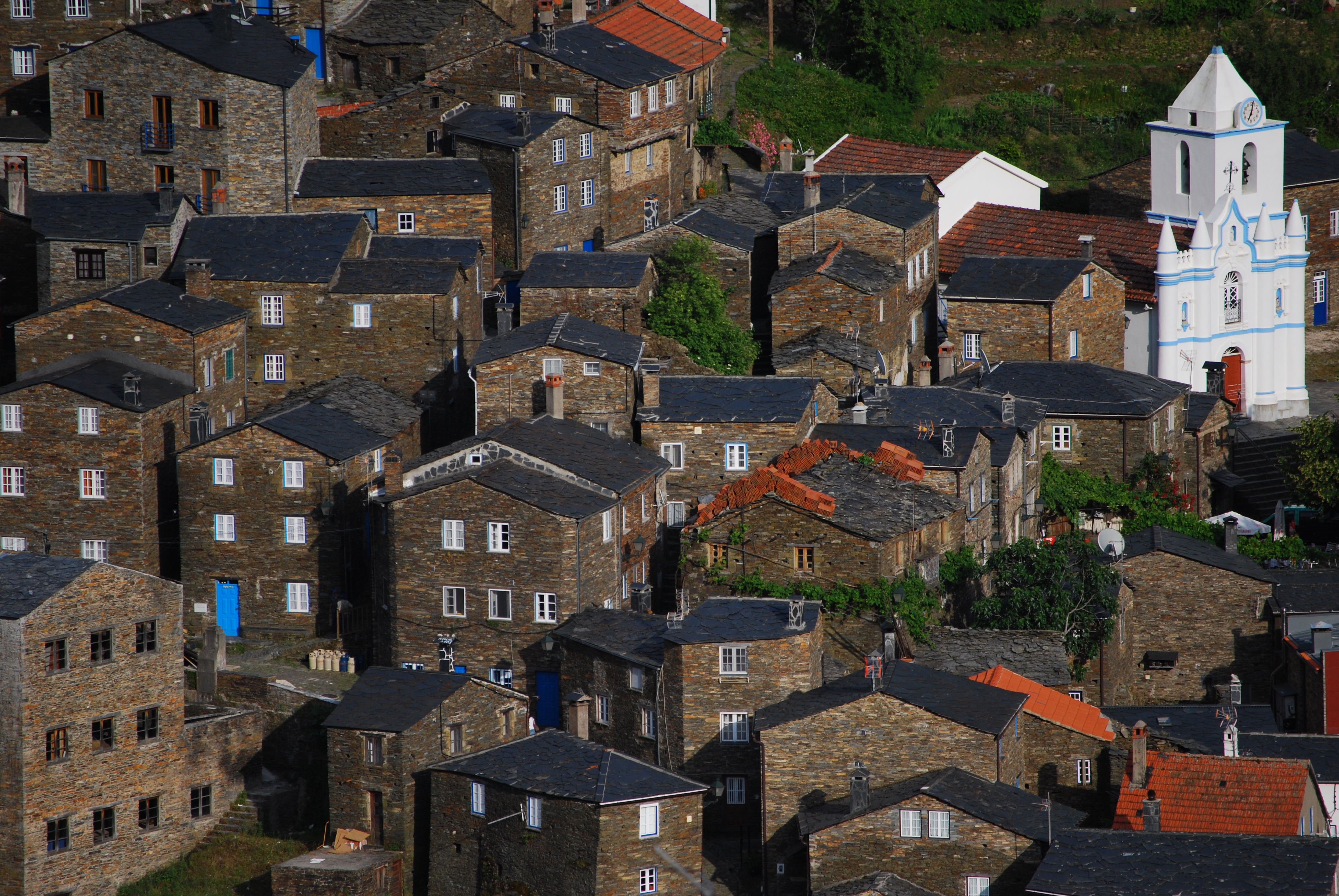 This file was uploaded for Wiki Loves Monuments in Portugal with the unique identifier 73200.